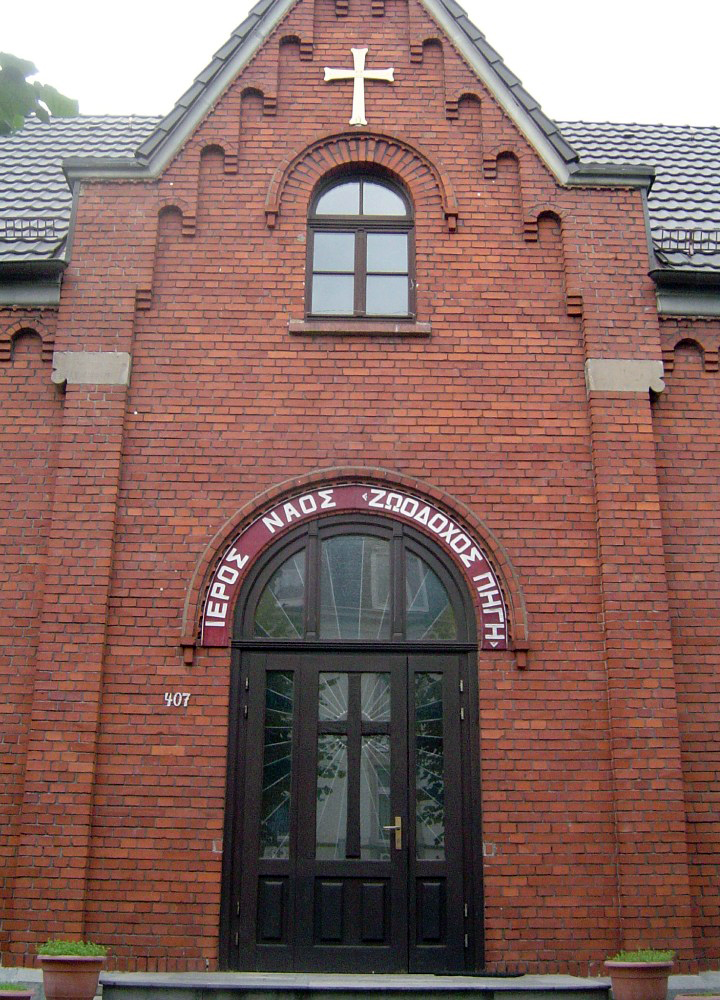 Greek Orthodox Church in Wuppertal, Germany